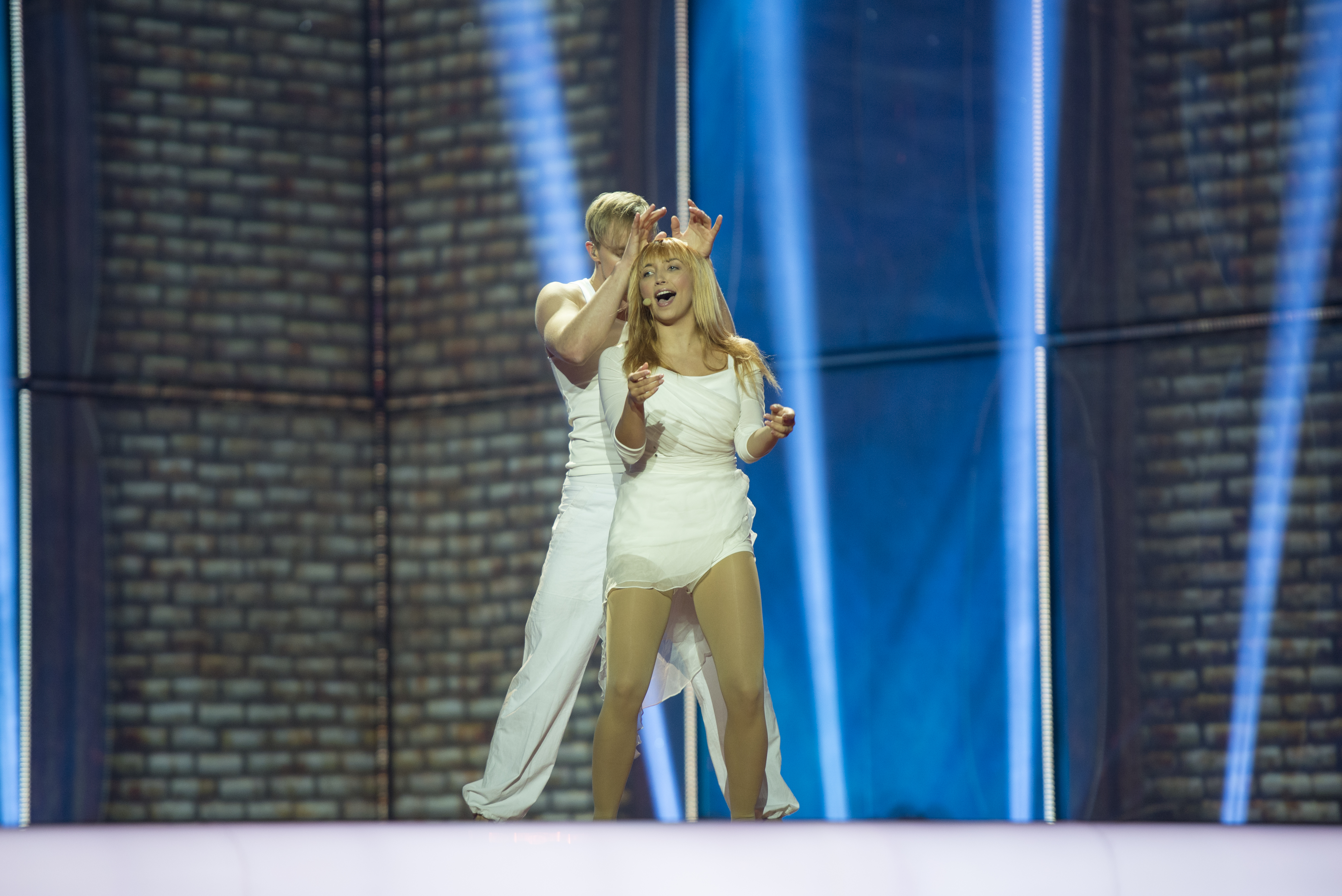 Tanja Mihhailova representing Estonia with the song "Amazing" during the first dress rehearsal of the first semi final of the Eurovision Song Contest 2014 Copenhagen. (Help translate this text)